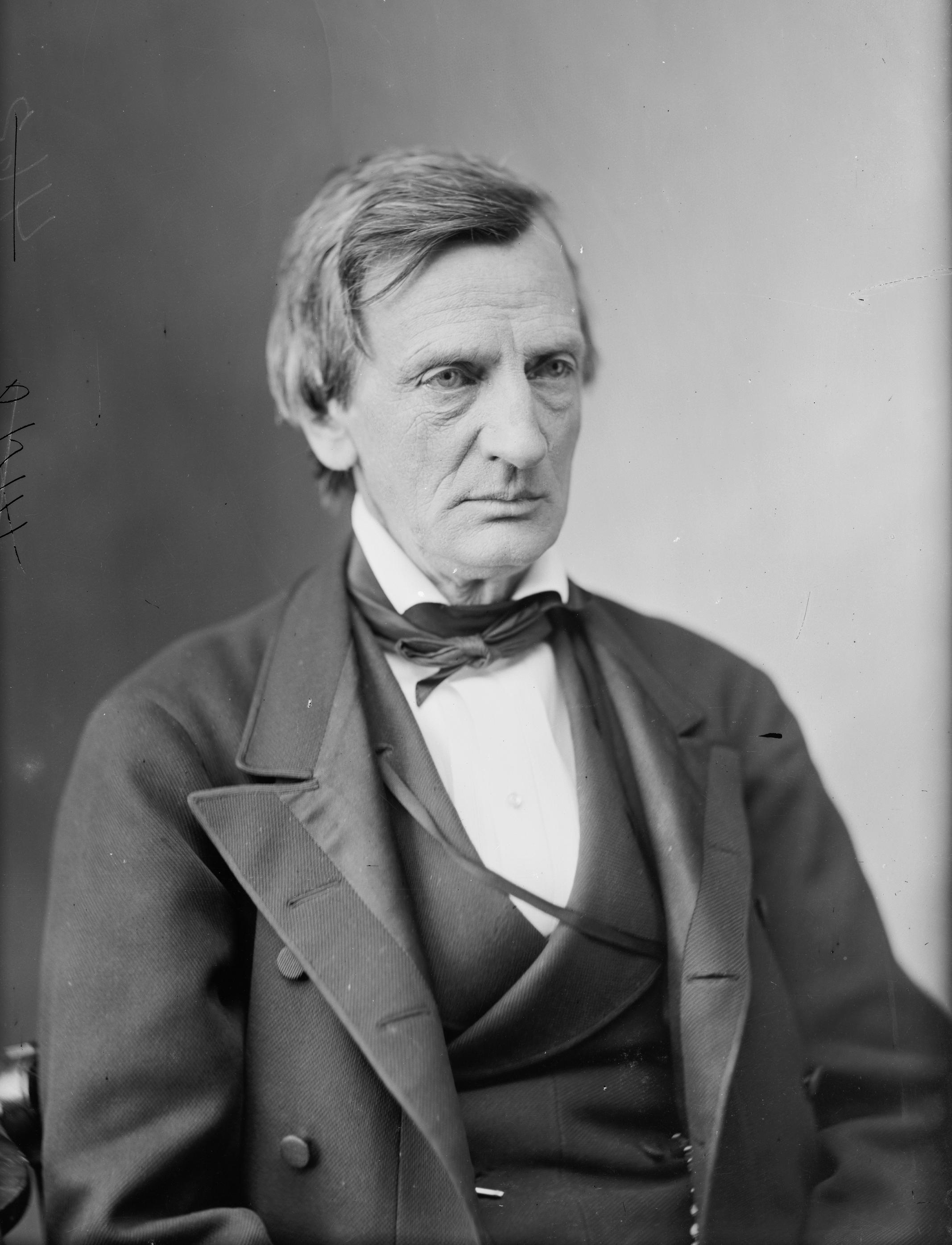 William M. Evarts. Library of Congress description: "Evarts, Hon. Wm of N.Y. Secty of State, Hays Cab."